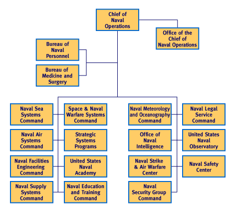 Organization of the Shore Establishment of the United States Navy